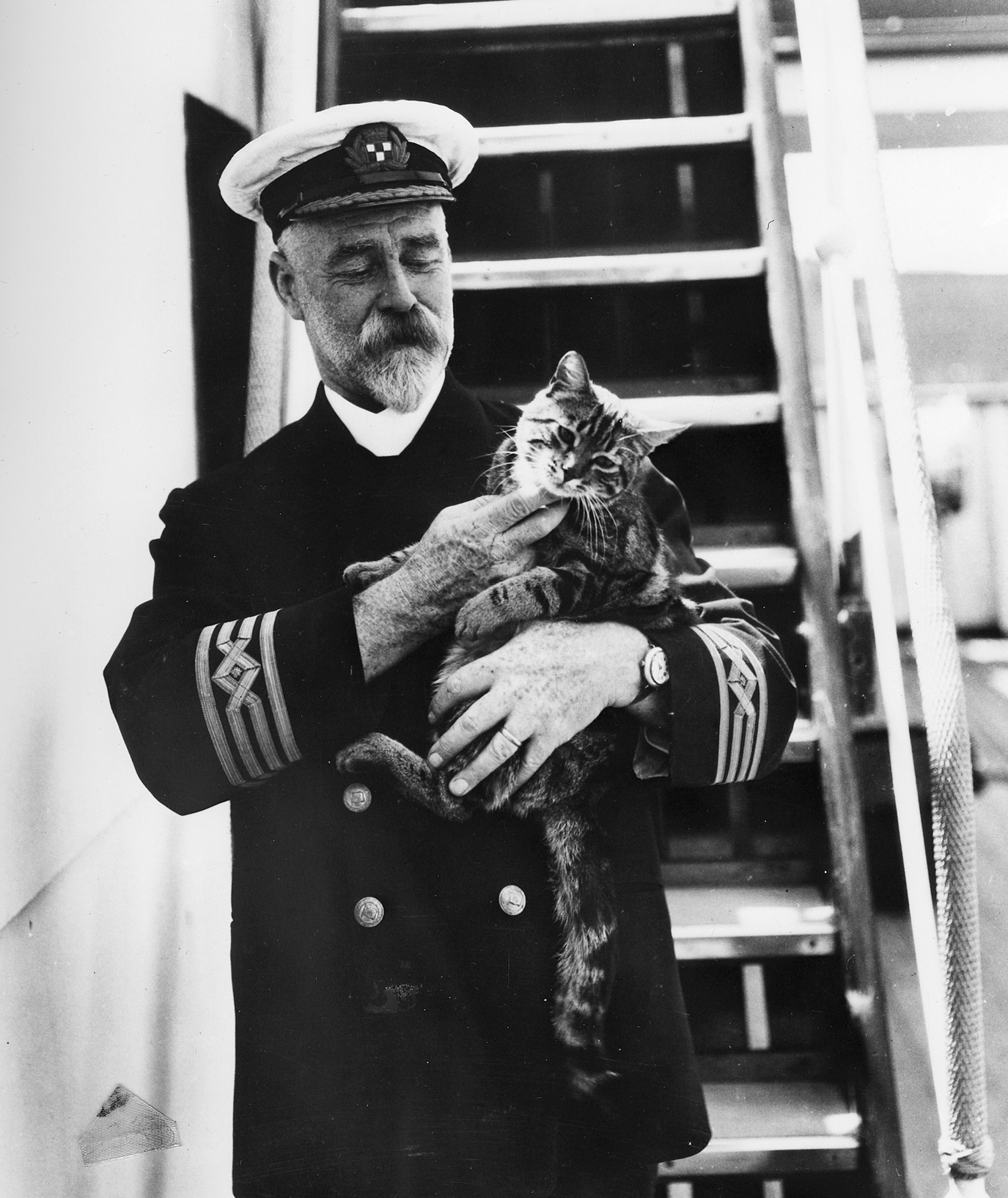 Creator: Unknown Date Created: [ca. 192-?] Source: University of British Columbia. Library. Rare Books and Special Collections Permanent URL: Project Website